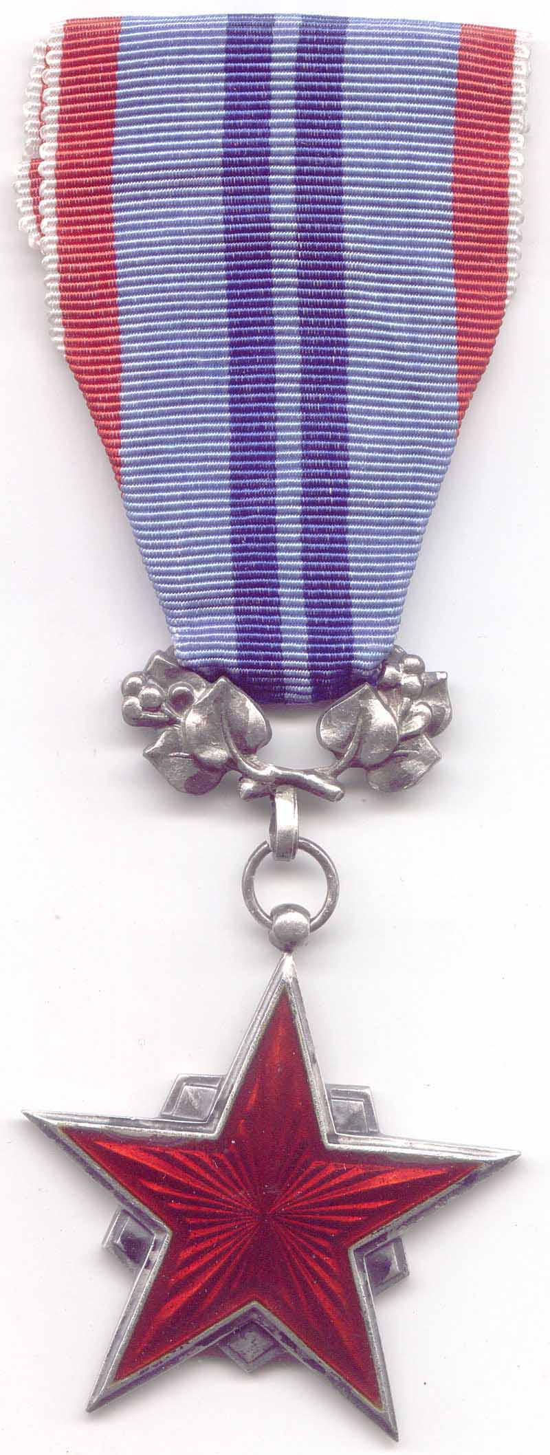 Order of the Red Star of Labour (CSSR)